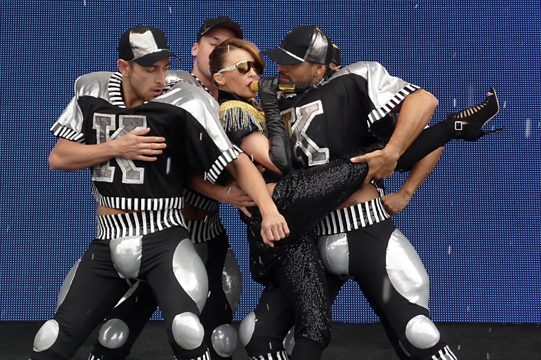 Taken by Peter on SayHey